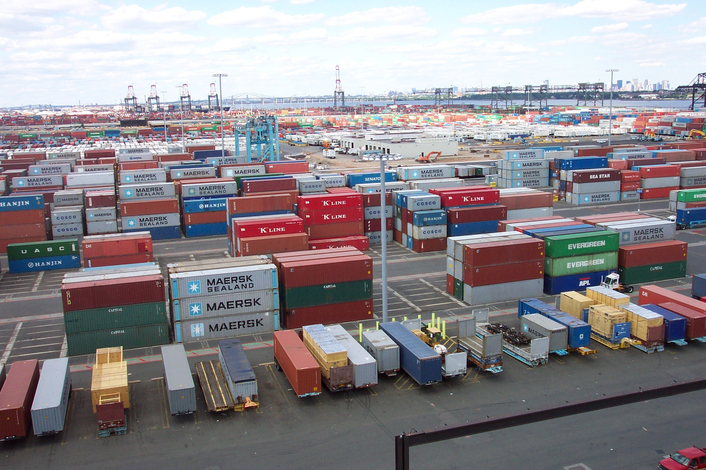 Thousands of shipping containers at the terminal at Port Elizabeth, New Jersey. Image ID: line3174, America's Coastlines Collection